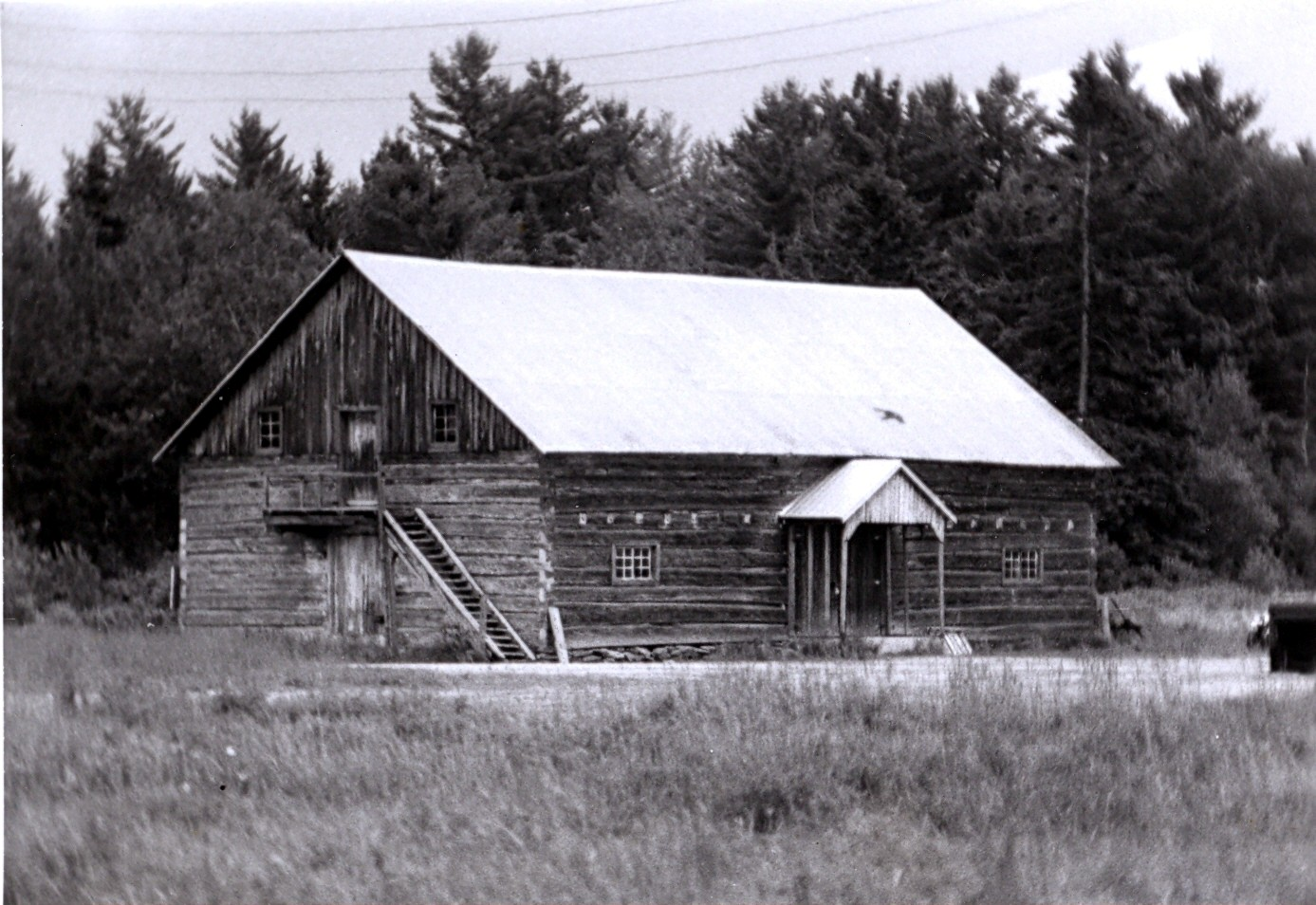 Usborne Depot Forest Camp